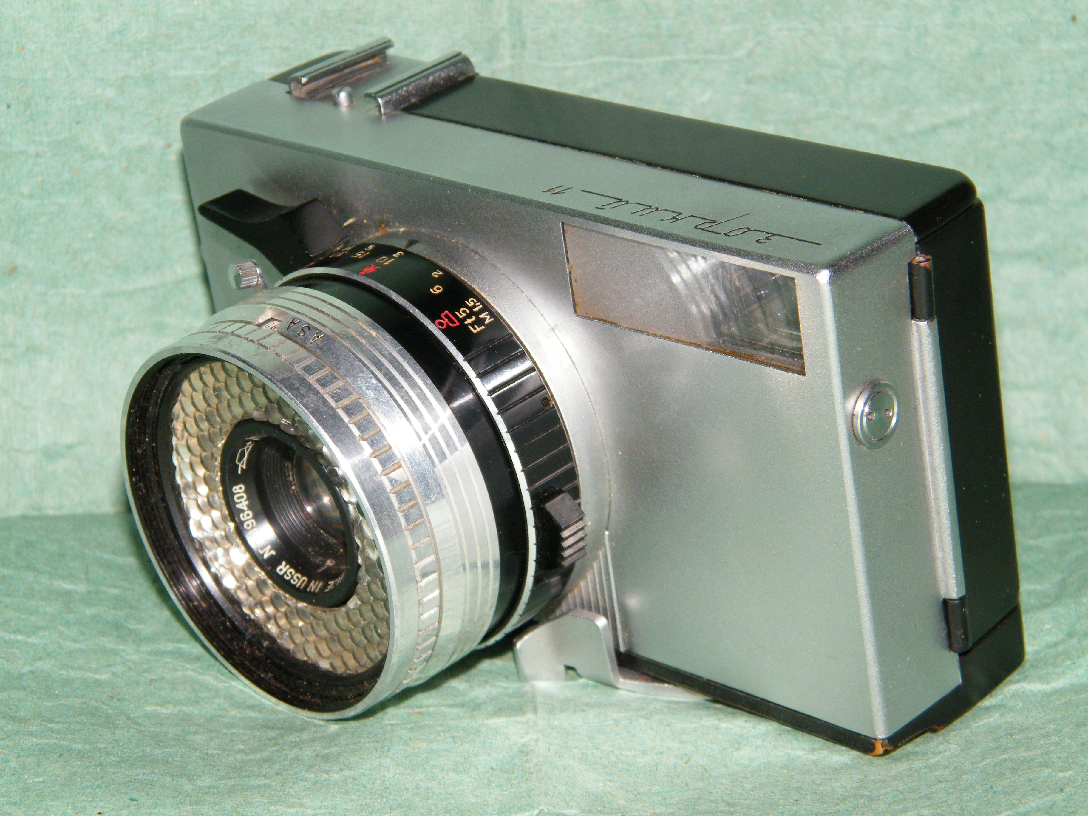 Zorki 11